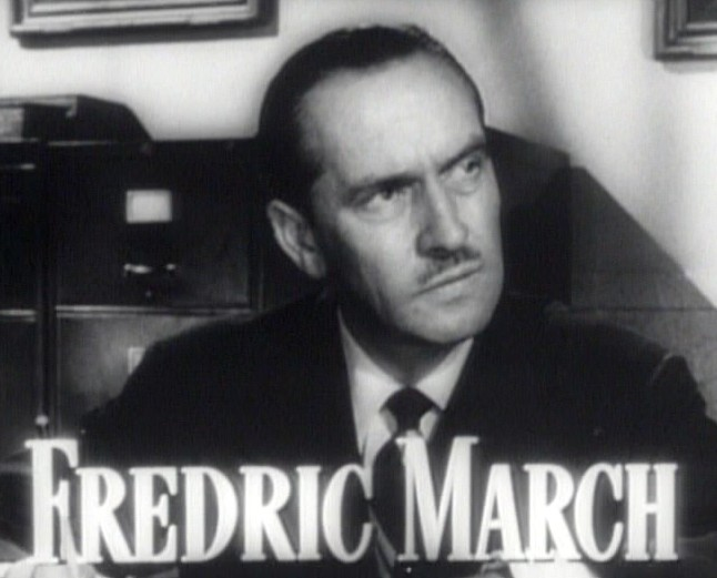 Cropped screenshot of Fredric March from the trailer for the film The Best Years of Our Lives (1946).